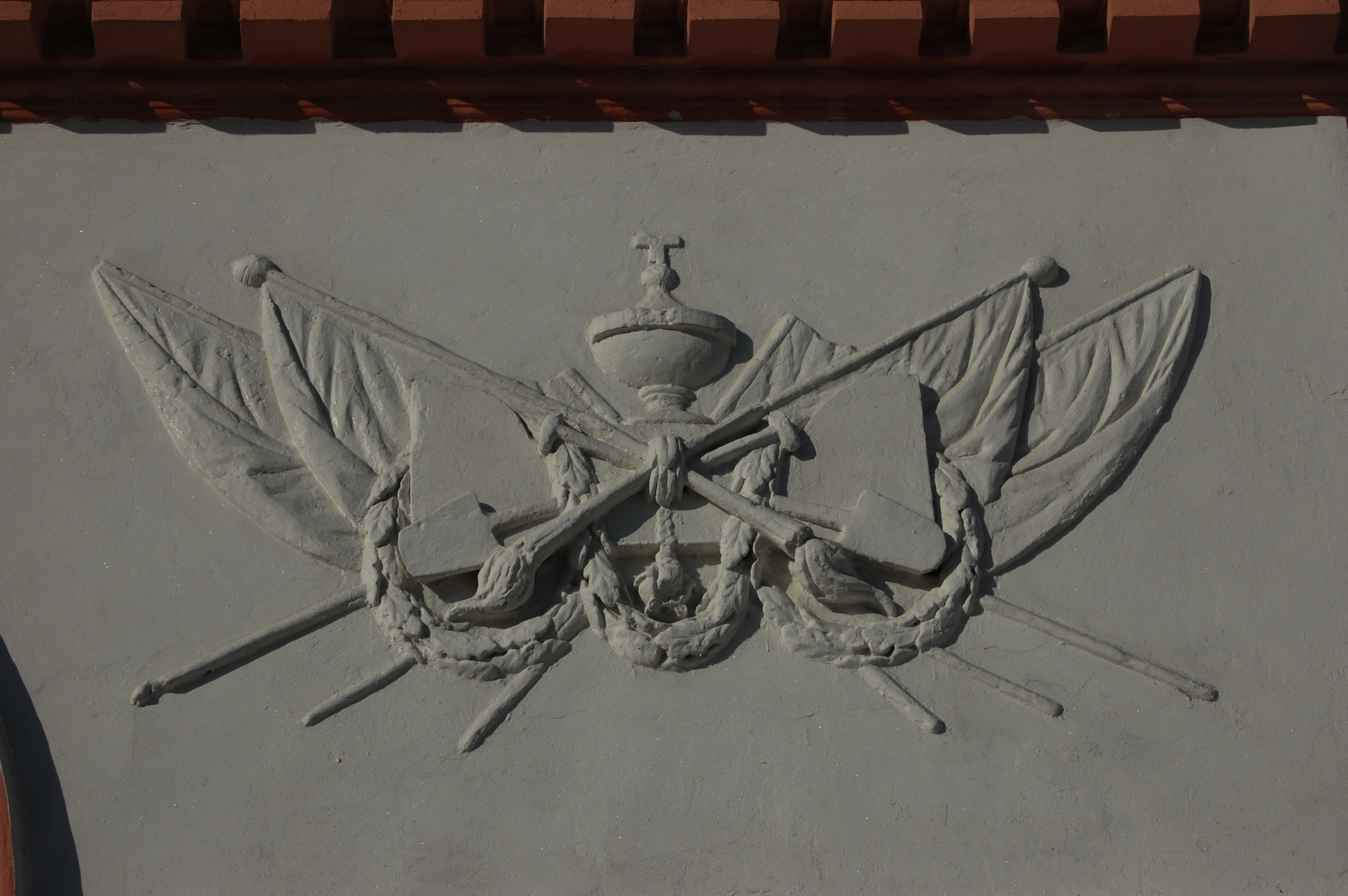 Gate. Calvary cemetery. Minsk, Belarus. Беларуская (тарашкевіца): Брама. Кальварыйскія могілкі. Менск, Беларусь.